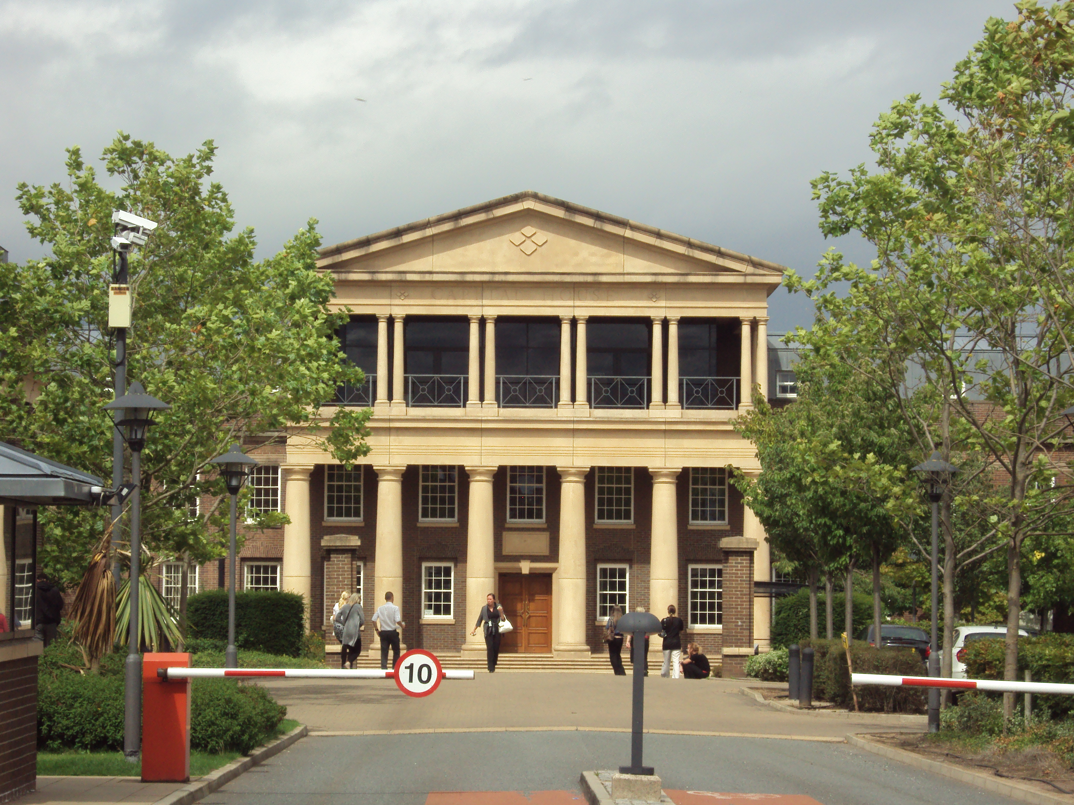 Former Bank of Scotland offices, Queen's Park Road, Handbridge, Chester.